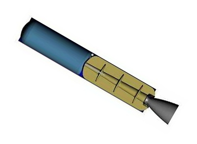 A hybrid rocket motor shape